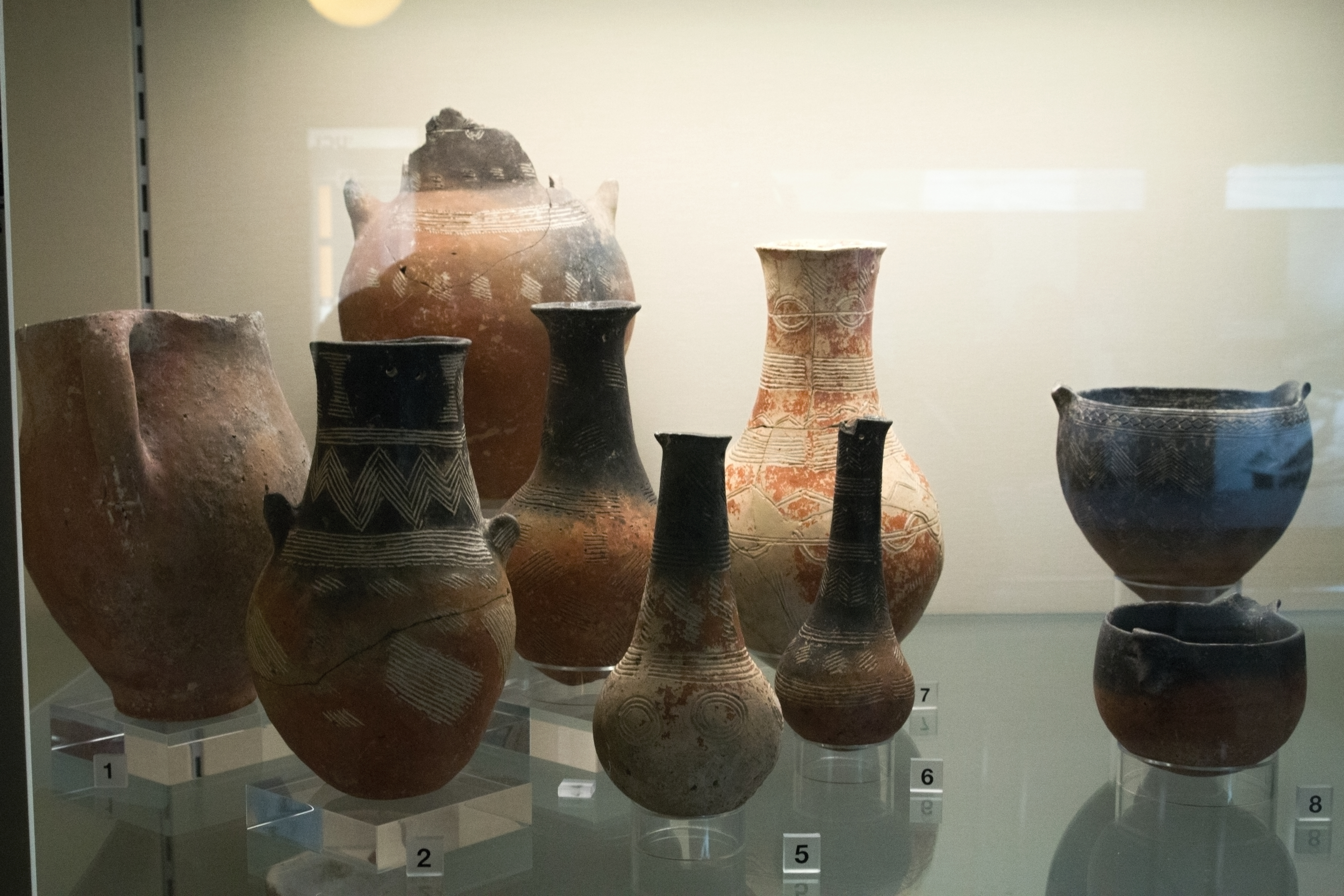 Pottery of Early Cypriot I period, 2500-2075 BC. UCL (University College London), Institute of Archaeology Collections (The A.G. Leventis Gallery of Cypriot and Eastern Mediterranean Archaeology).